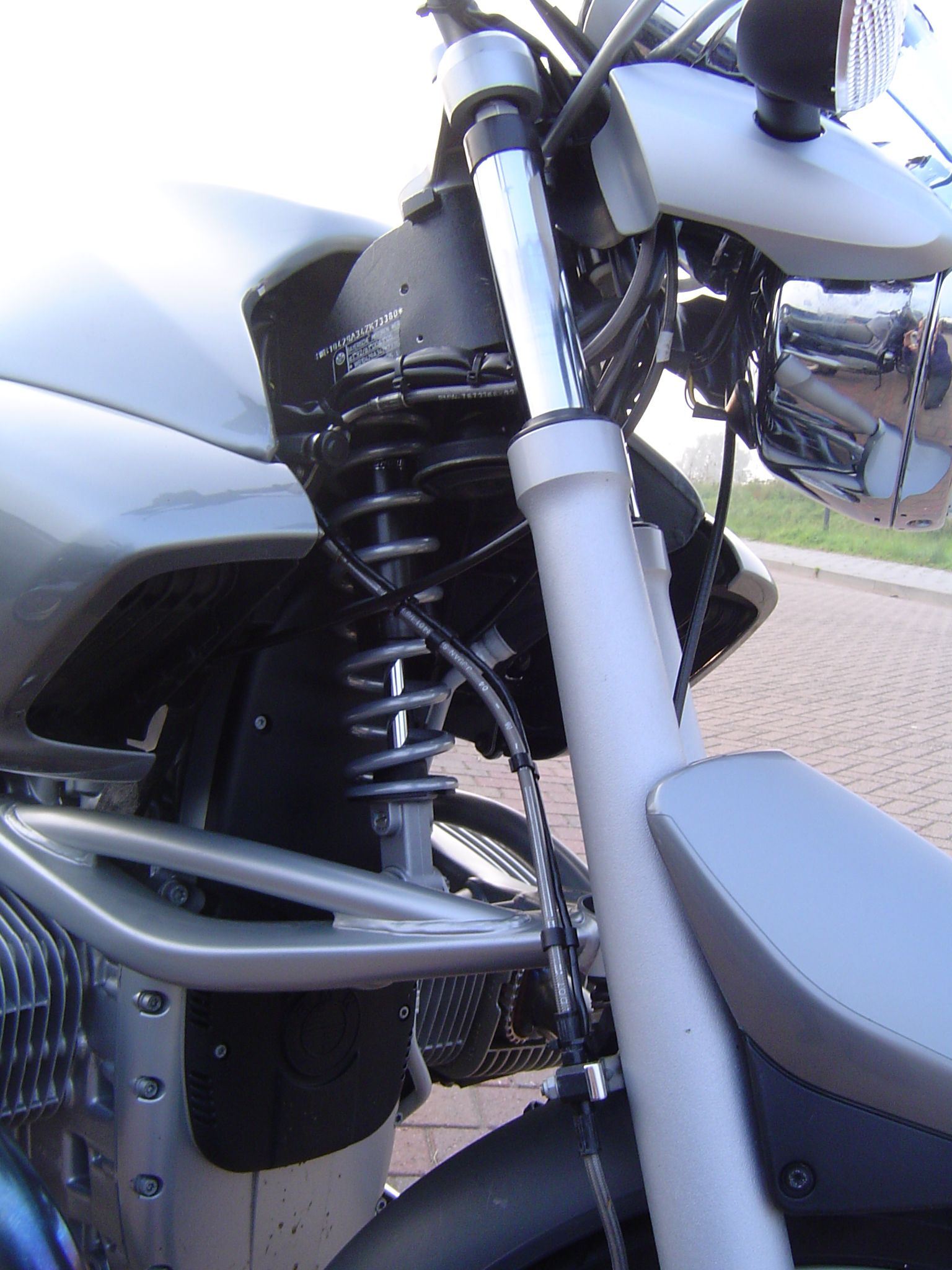 Telelever.